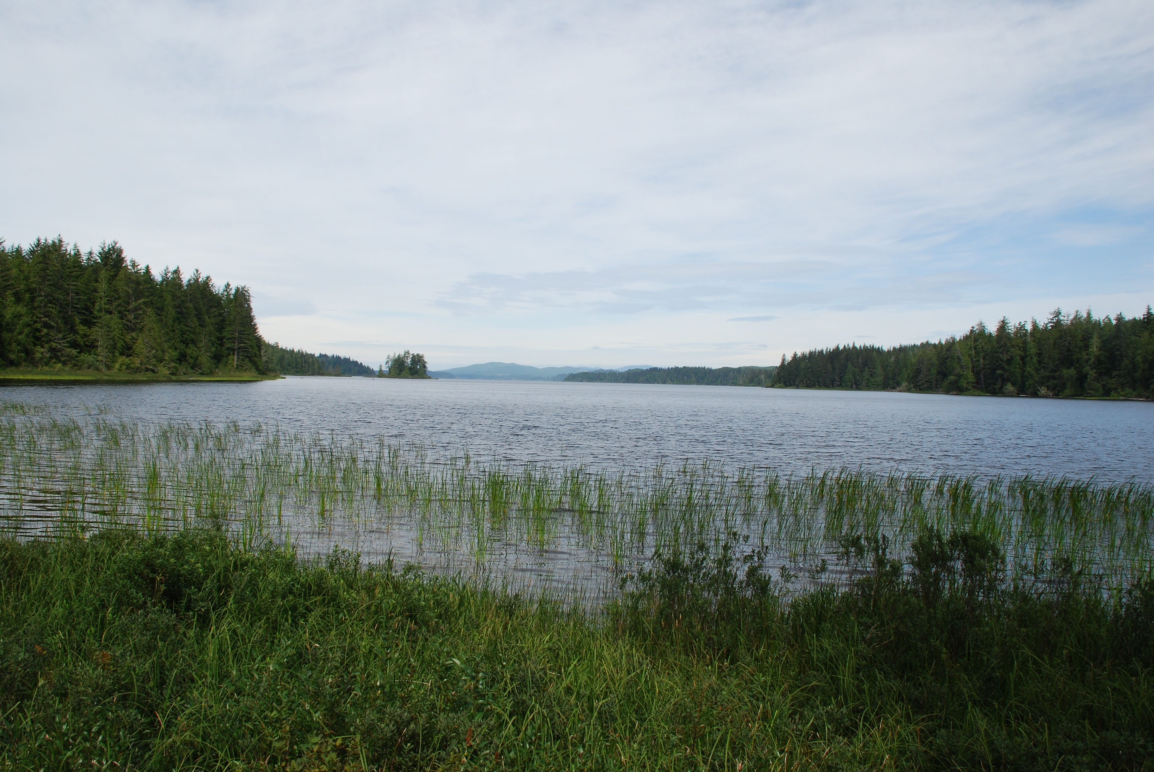 Lake Ozette, Washington, United States